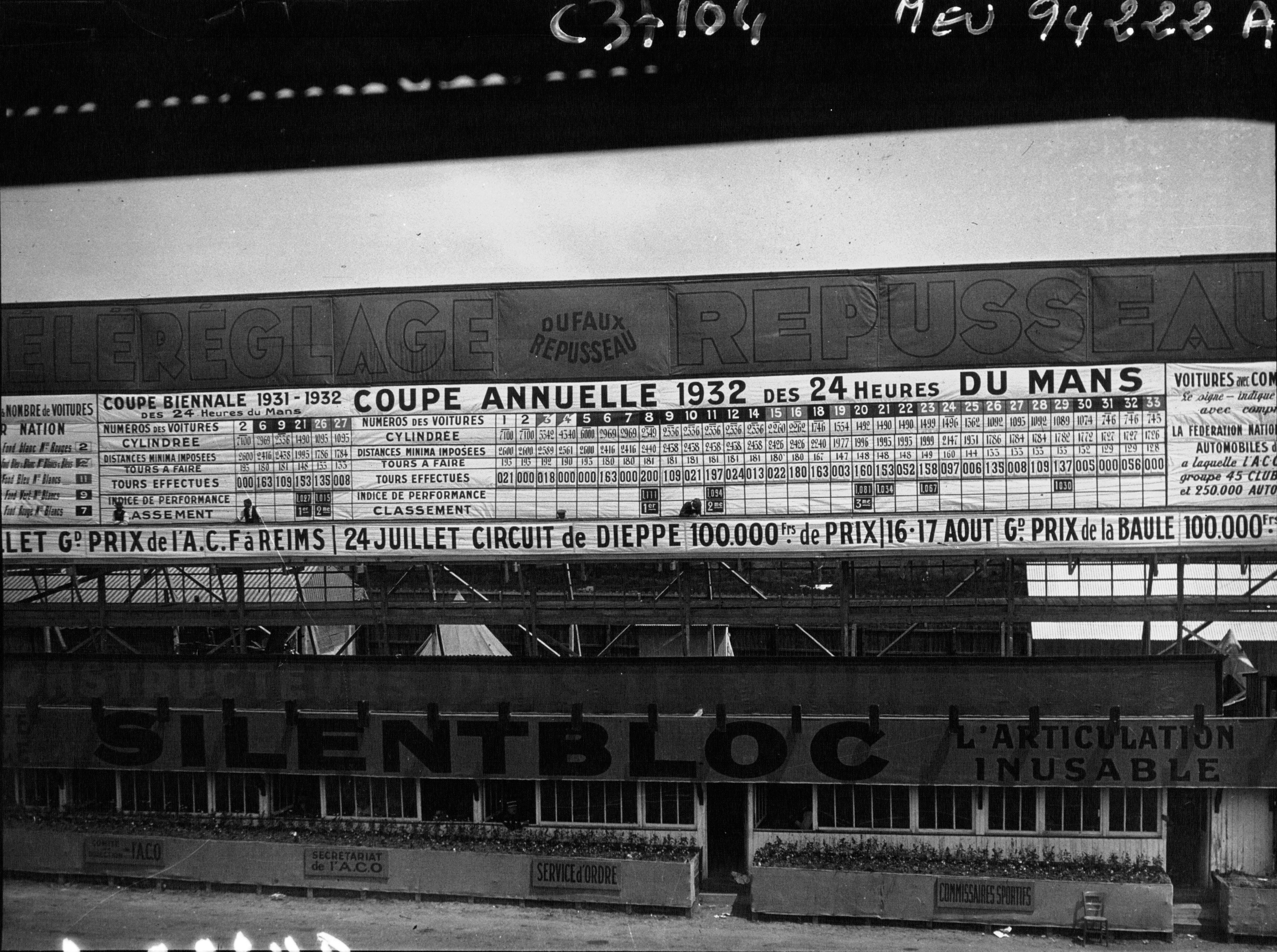 Grid at the 1932 24 Hours of Le Mans.